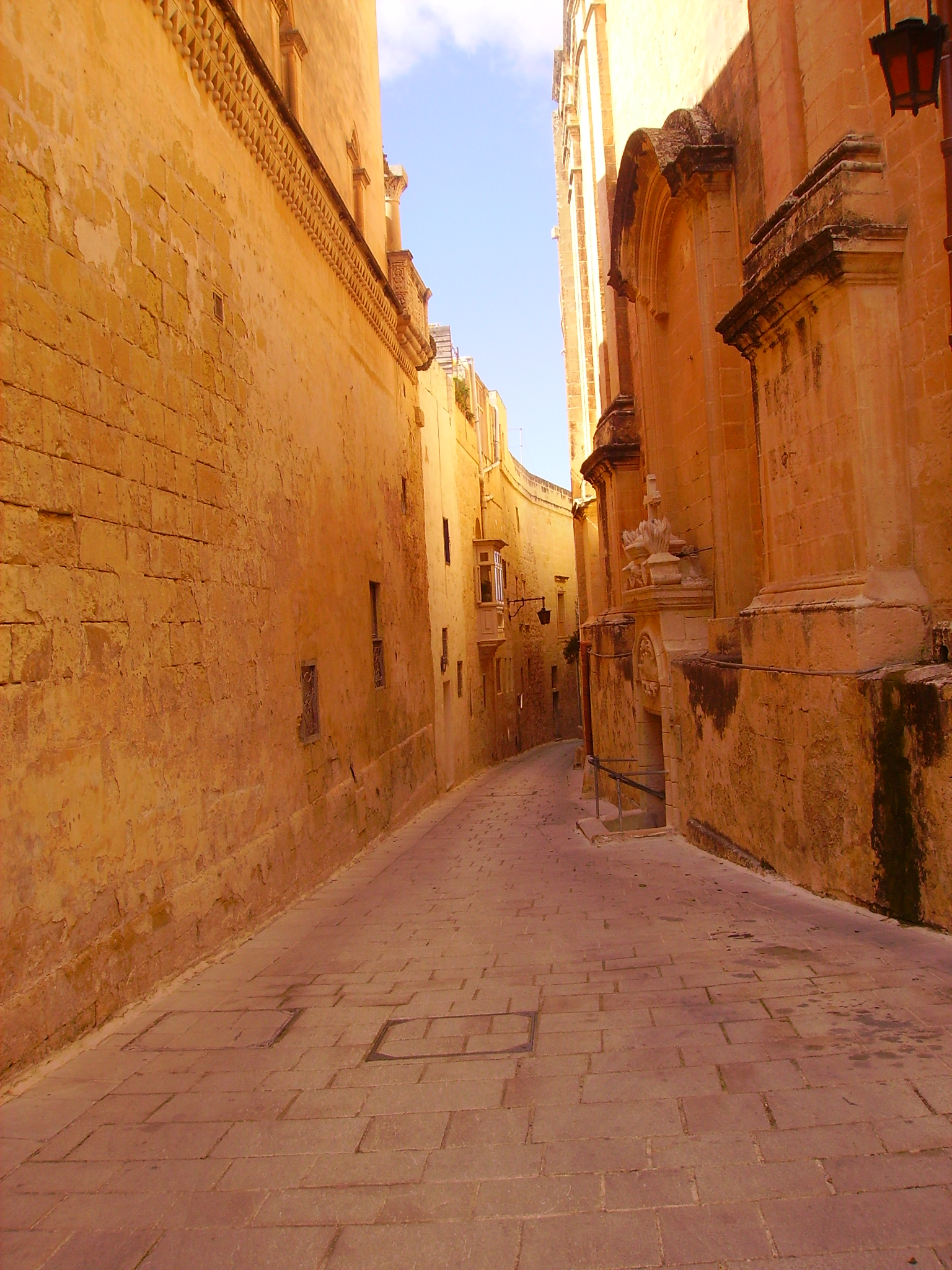 Old City of Mdina